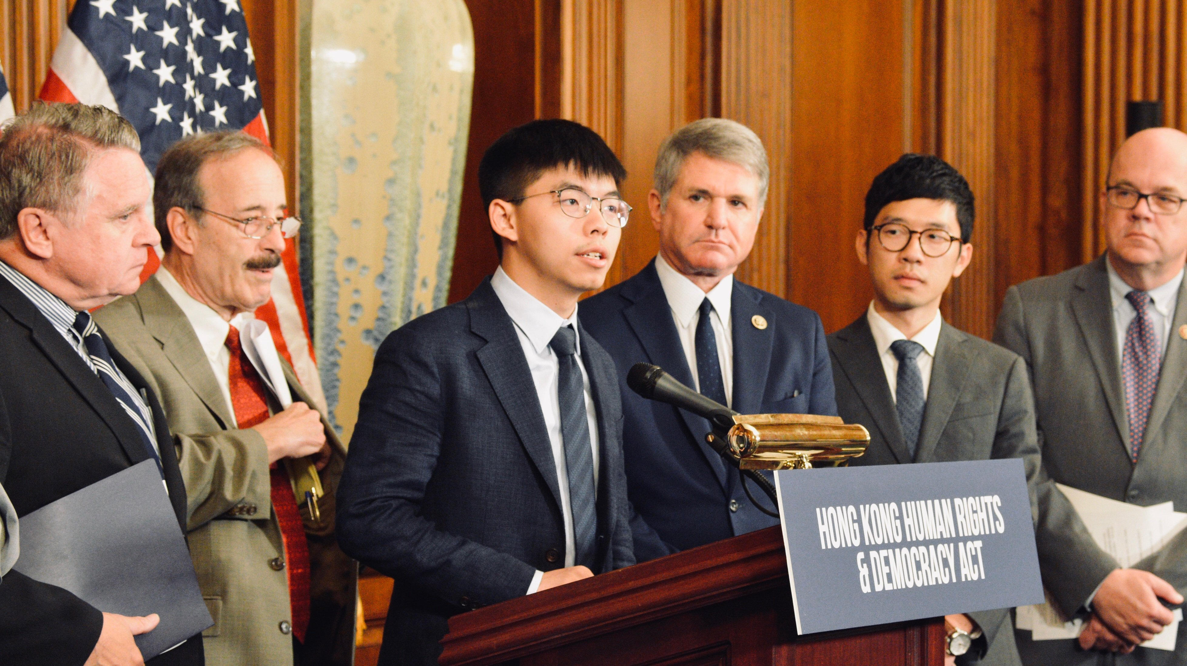 Hong Kong student activist Joshua Wong speaks at the U.S. Capitol, along with Representatives Eliot Engel and Michael McCaul